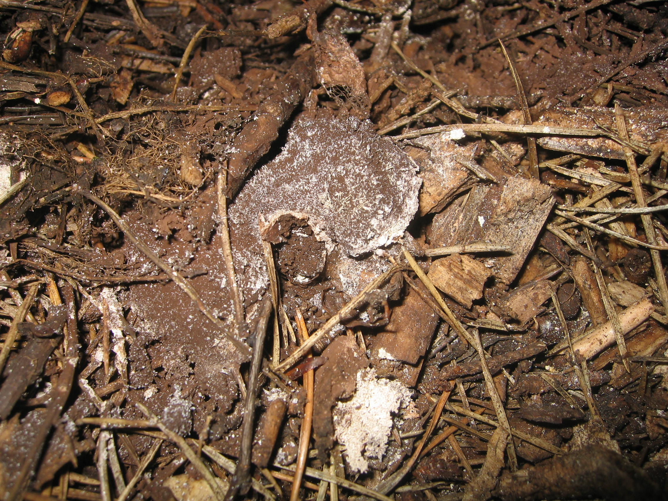 Slime mould (former yellow, than reddish / brown), Fuligo rufa (old), (Myxogastria)